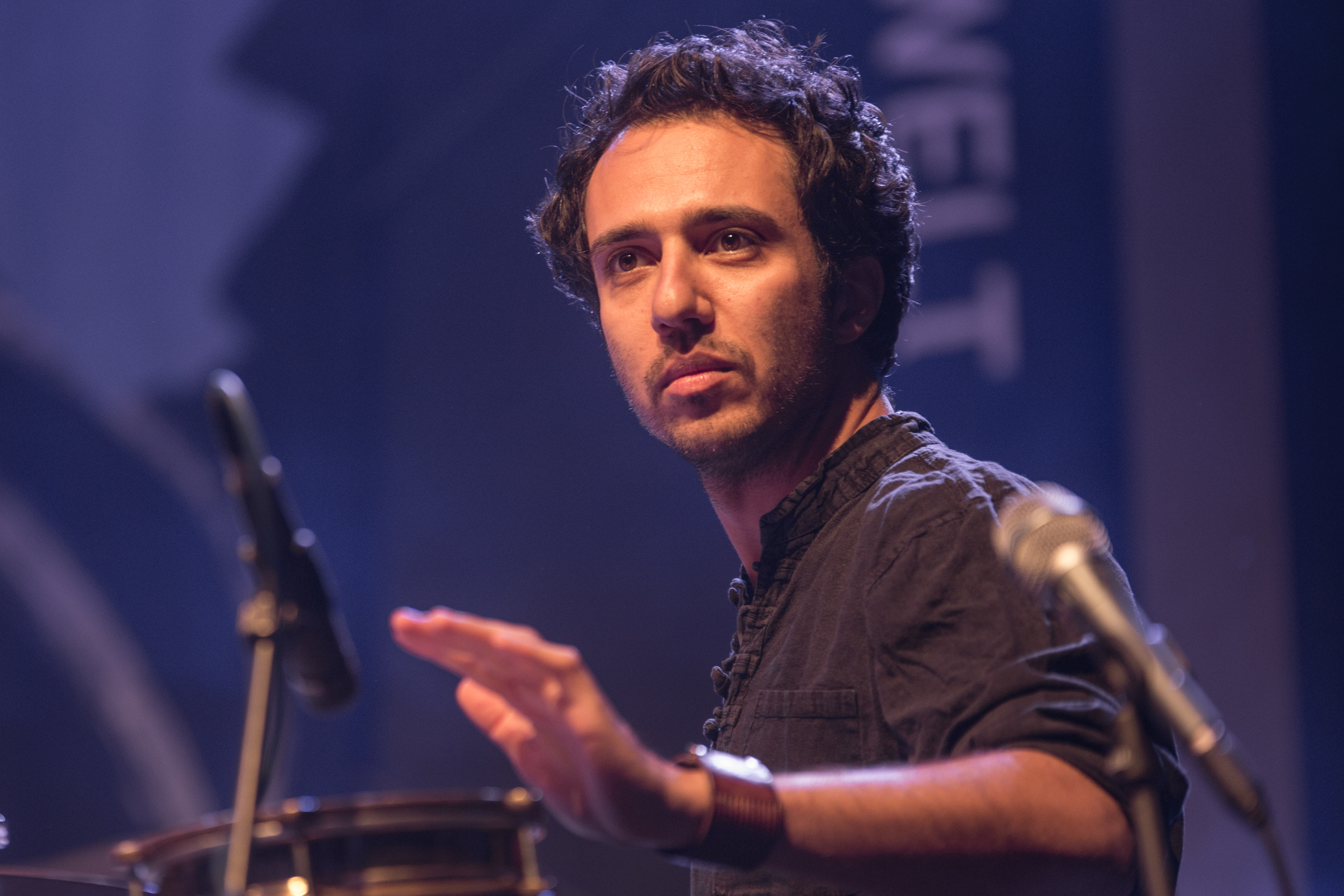 Damahi playing at the Rudolstadt-Festival 2019.